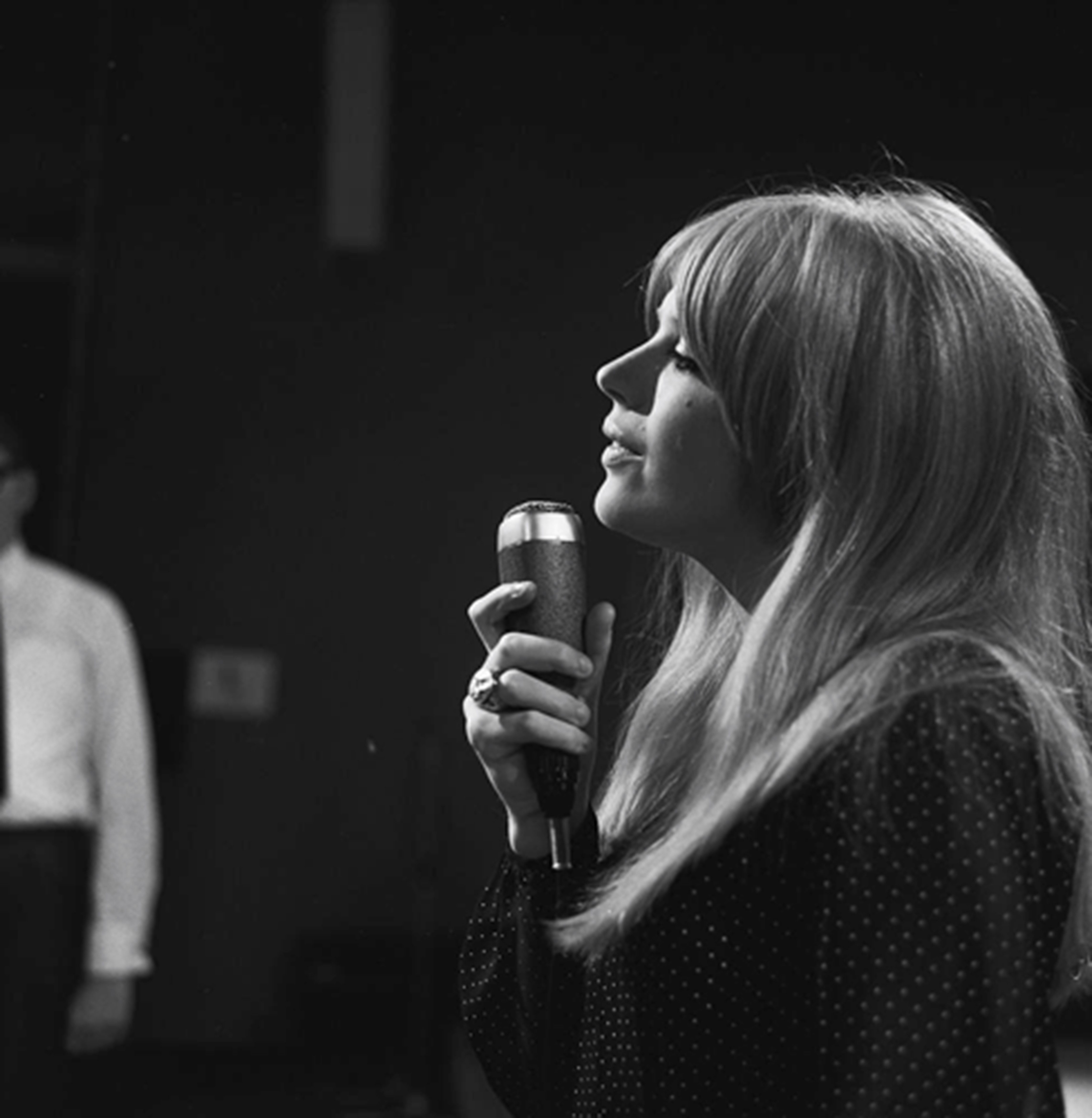 Marianne Faithfull singing "Sunny Goodge Street", "Les Parapluies de Cherbourg (Ne me quitte pas)" and "That's Right Baby" in Dutch TV programme Fanclub. Registered 17 Sept. 1966, broadcast 23 Sept. 1966.